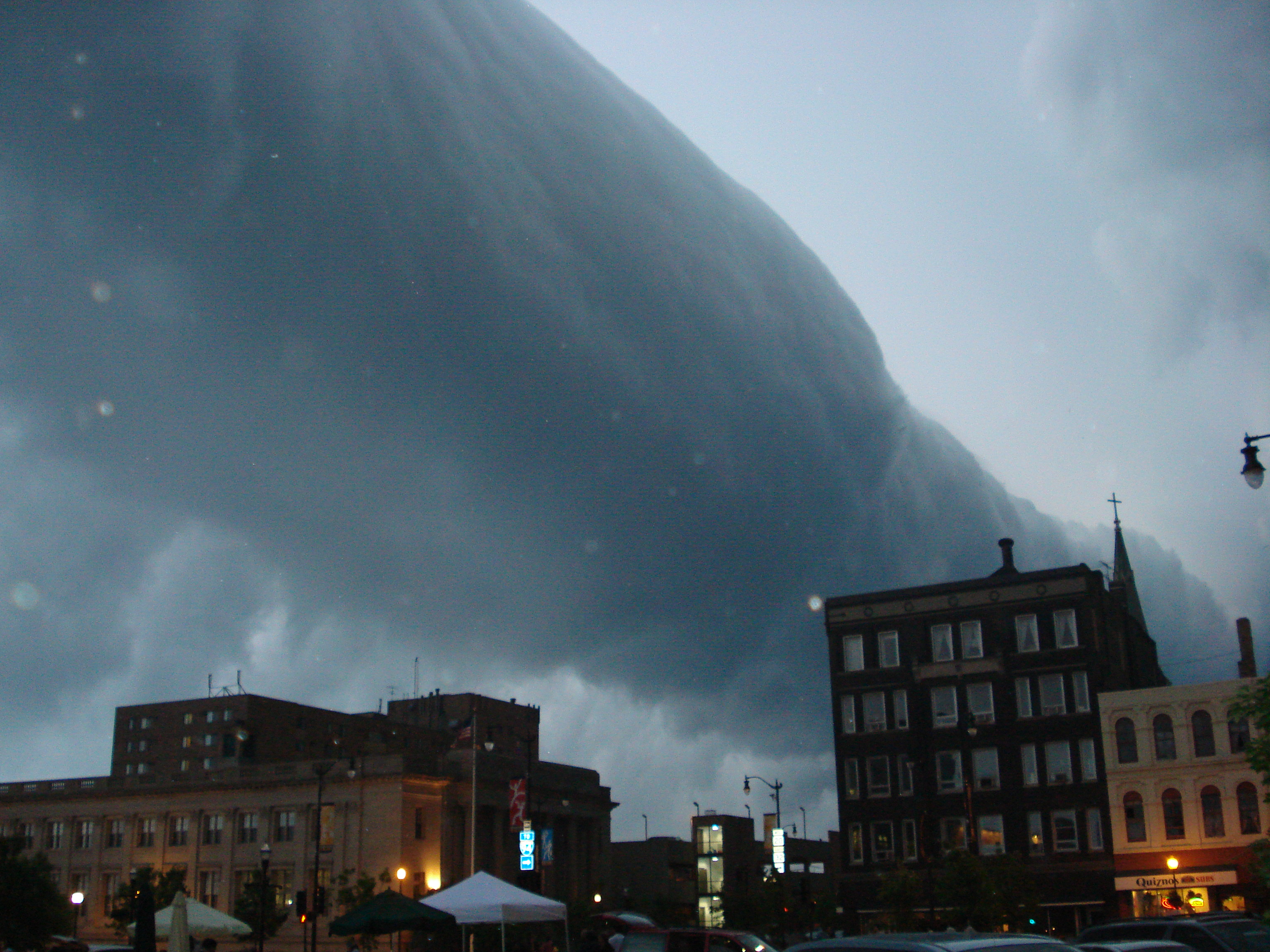 Roll cloud under thunderstorms, sign of the gust front.